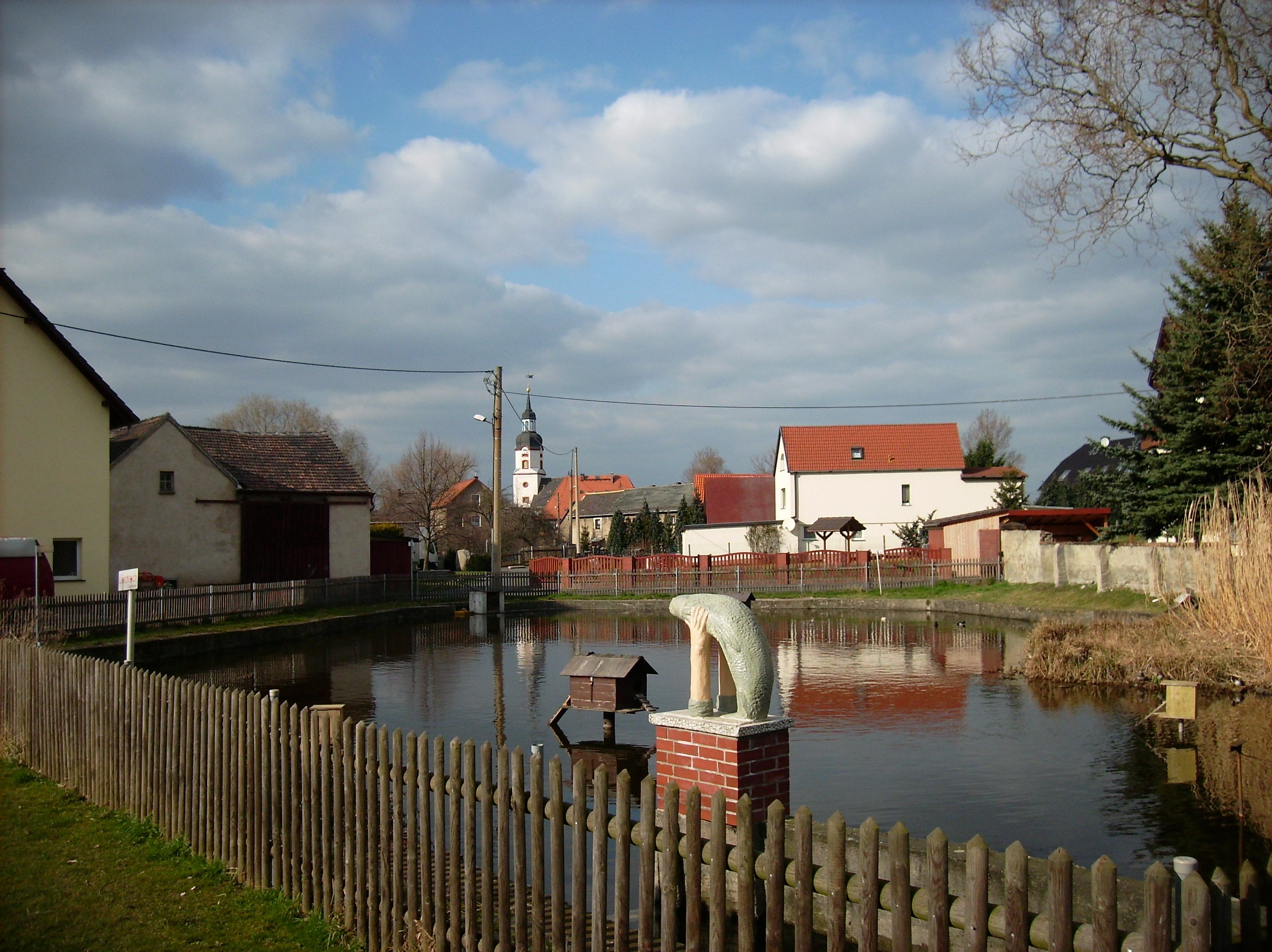 Pond in Trages (Kitzscher, Leipzig district, Saxony), the church of the village in the background